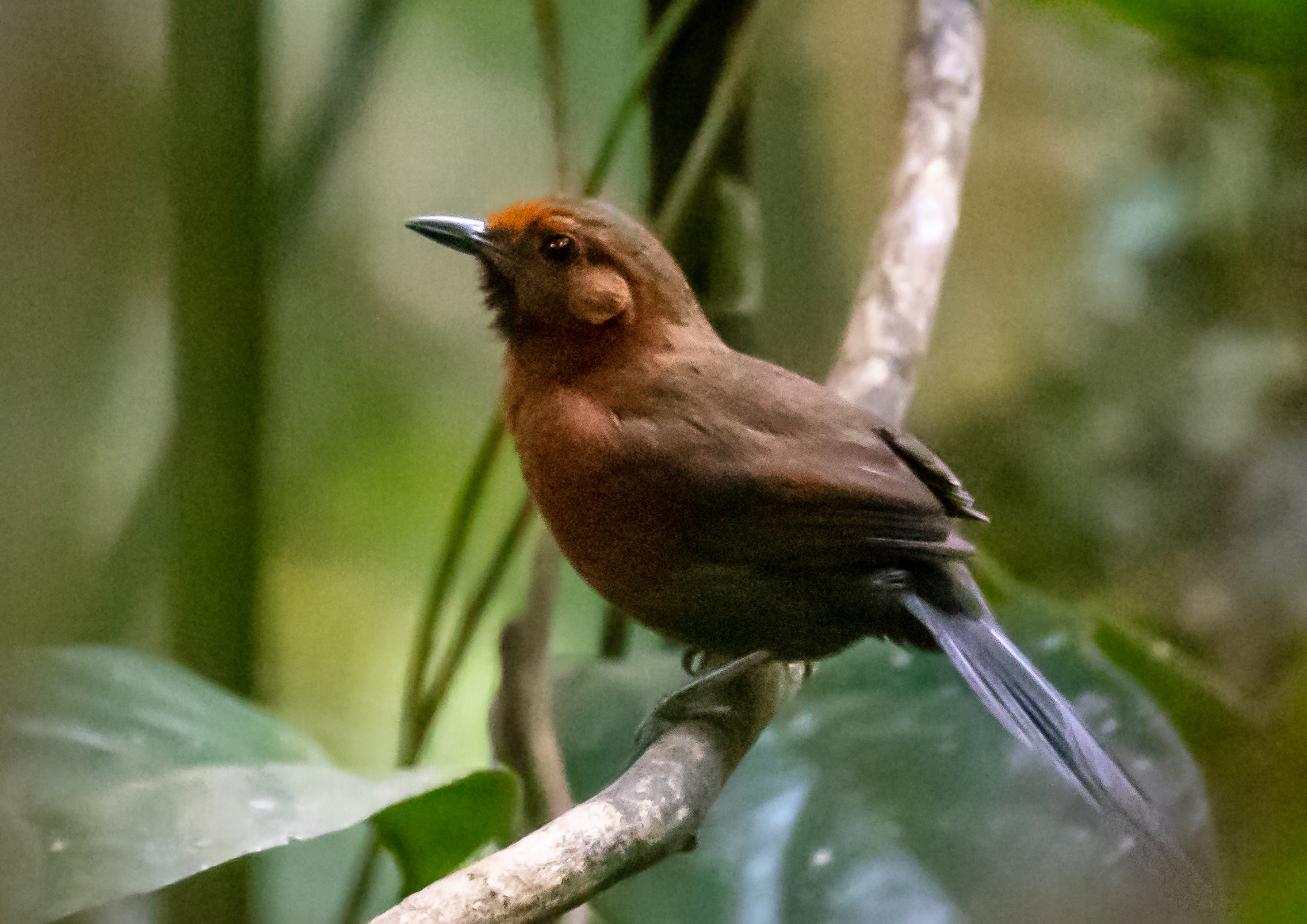 Ruddy spinetail, Presidente Figueiredo, Amazonas, Brazil